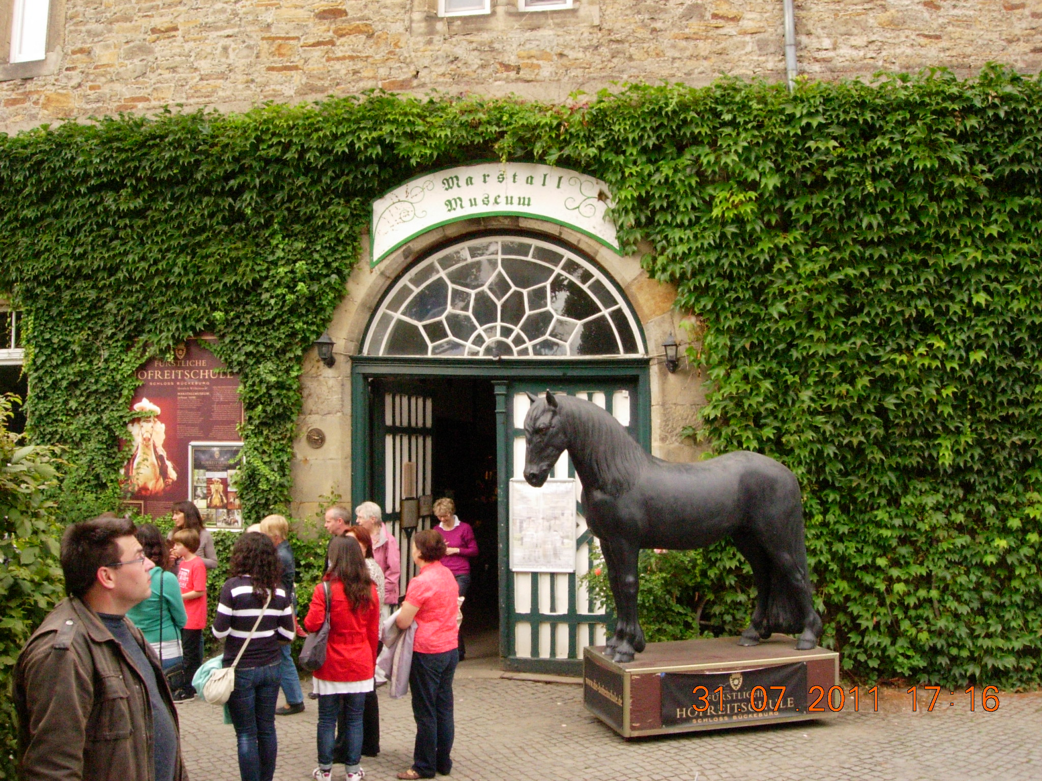 Door to the Fürstliche Hofreitschule museum